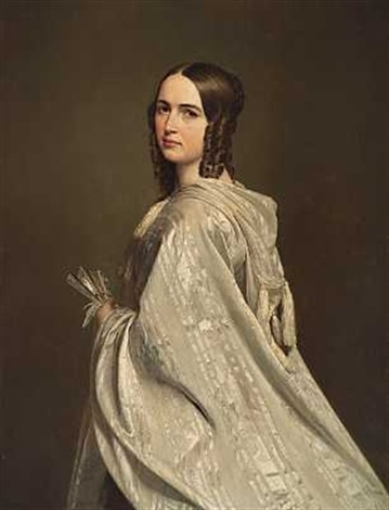 Portræt af Malvina Hoskier, gift med J. P. Trap